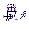 Dantalion Seal (self made image)